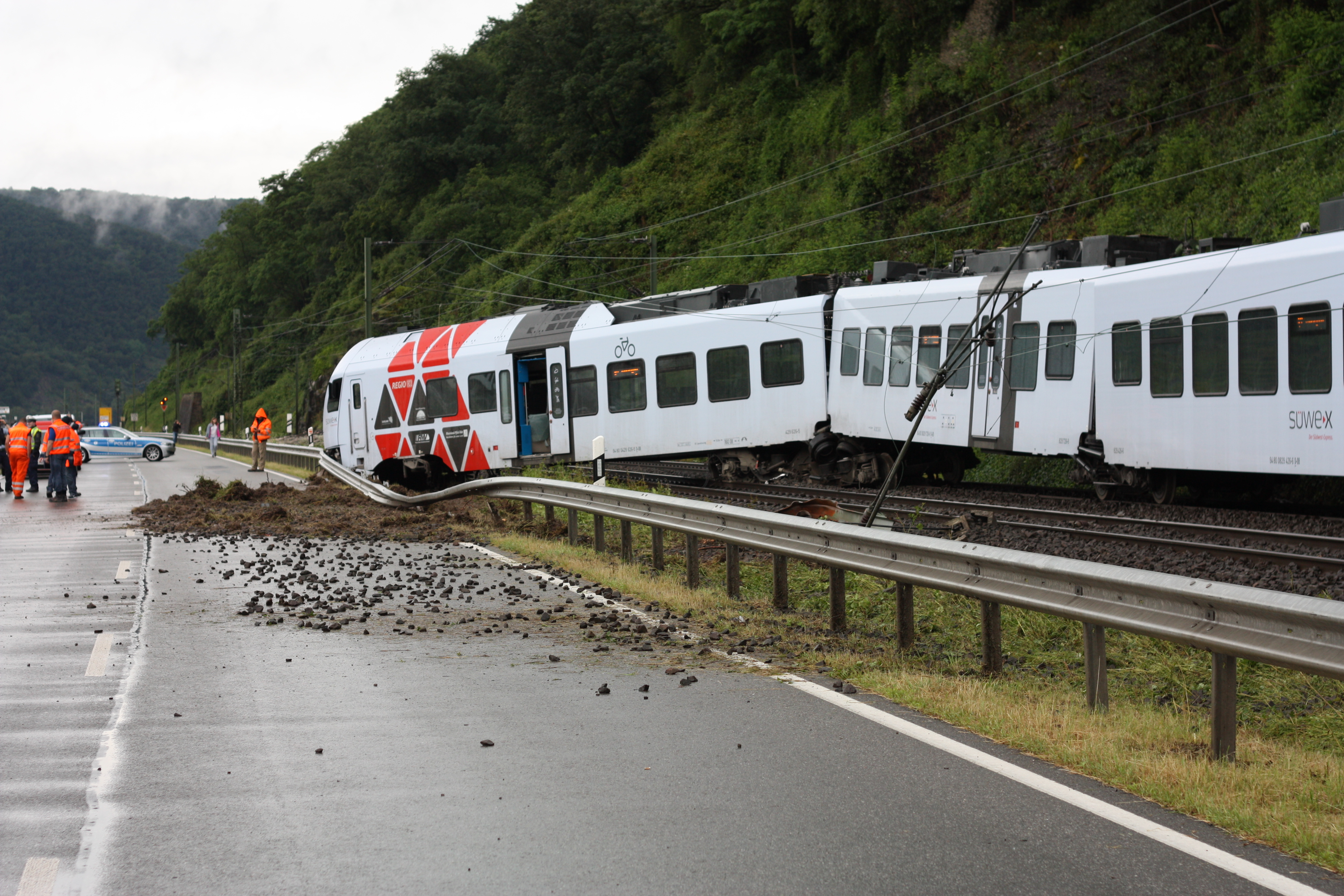 The German RE 4251 was on its way from Koblenz to Frankfurt on 25 June 2016. Between Oberwesel and Bacharach at 5:38 a.m. the front part of the train derailed due to a debris flow.